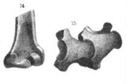 Illustrations of the humerus of Saniva major (=Saniwa ensidens) (left) and the vertebrae of Saniwa ensidens (right) from "Contributions to the extinct vertebrate fauna of the Western Territories" by Joseph Leidy (Report of the United States Geological Survey of the Territories 1: 1-358).